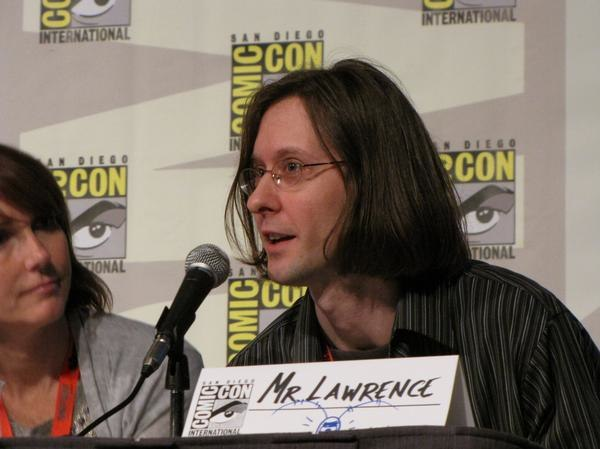 American voice actor and writer Mr. Lawrence sitting on the SpongeBob SquarePants panel at the 2009 San Diego Comic-Con panel